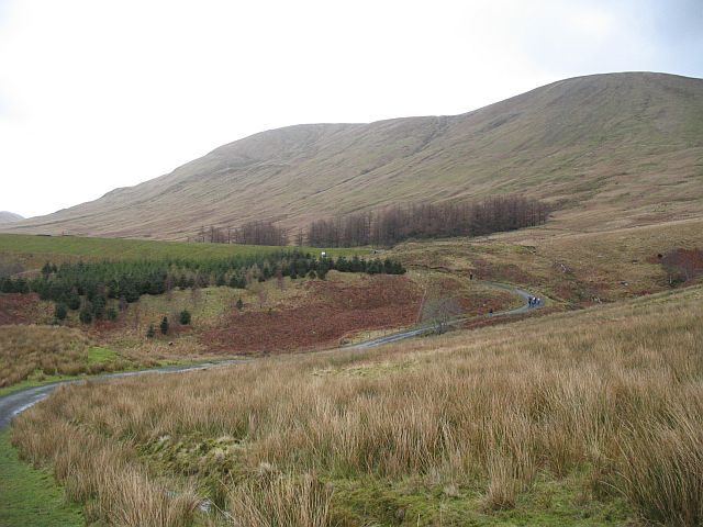 Auchengaich Reservoir road With the dam and Beinn Chaorach in the background. A school group is on their way to Luss.